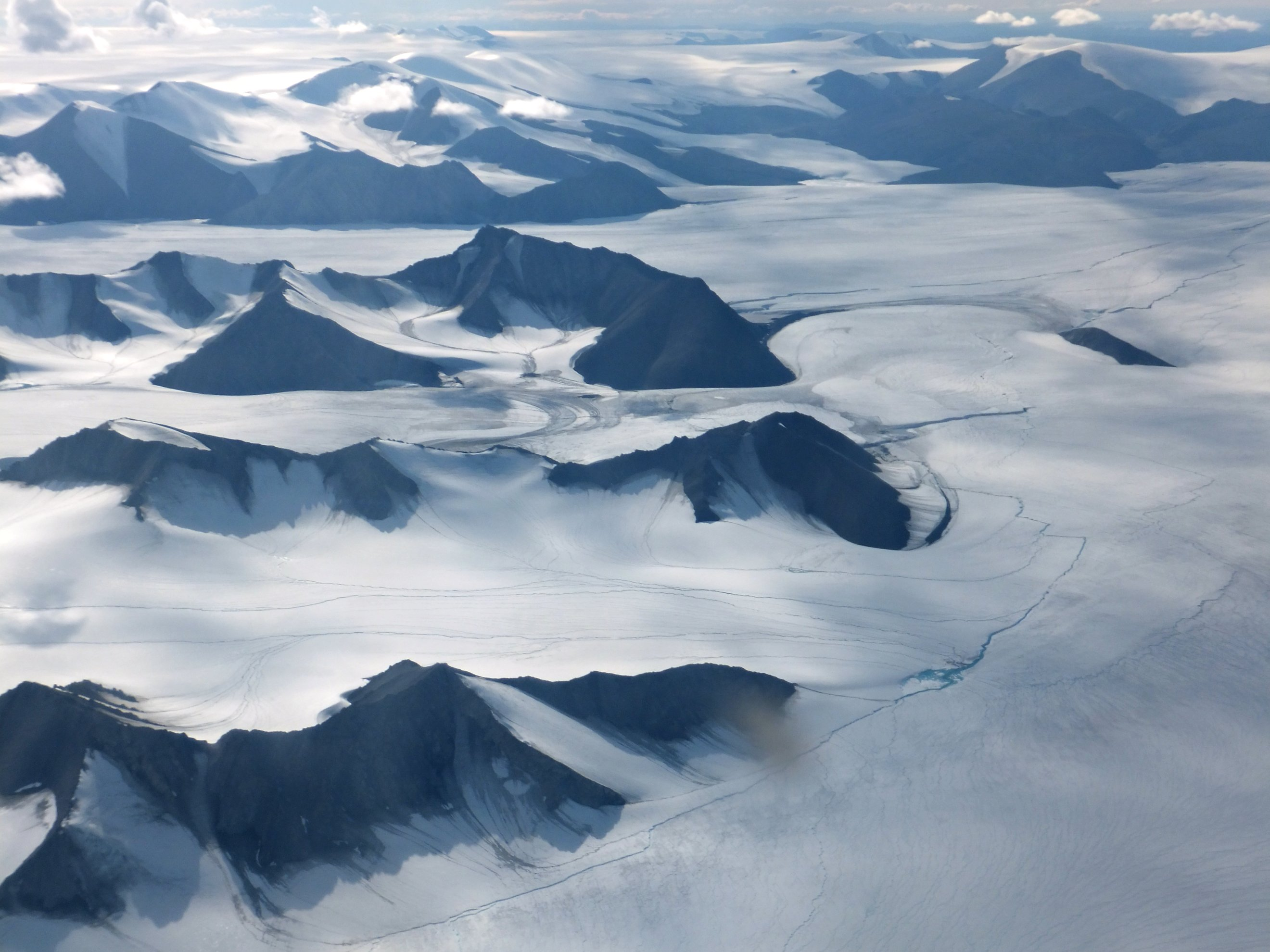 July 2011